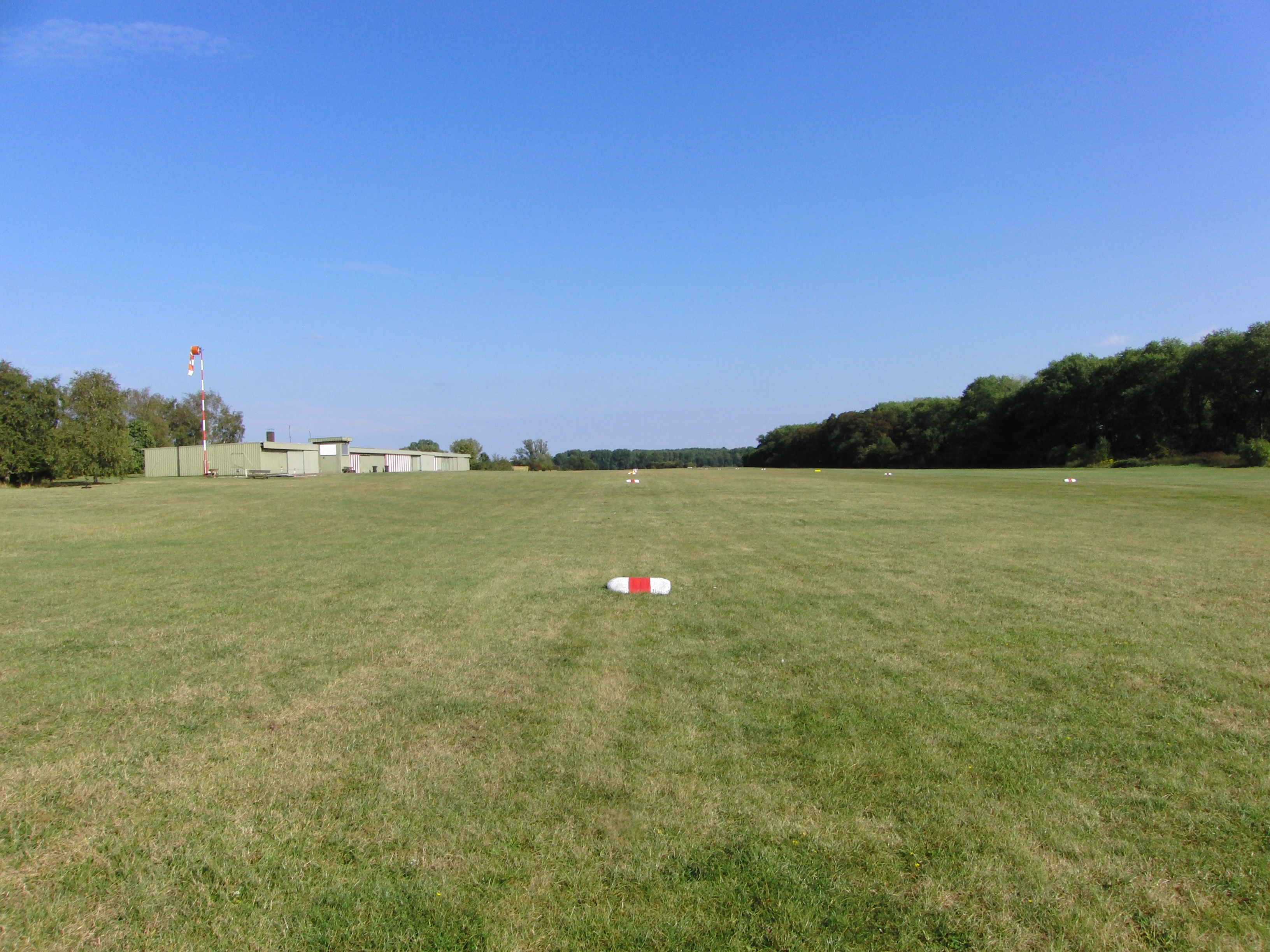 Special airfield "Peine-Glindbruchkippe" near Vöhrum, Peine